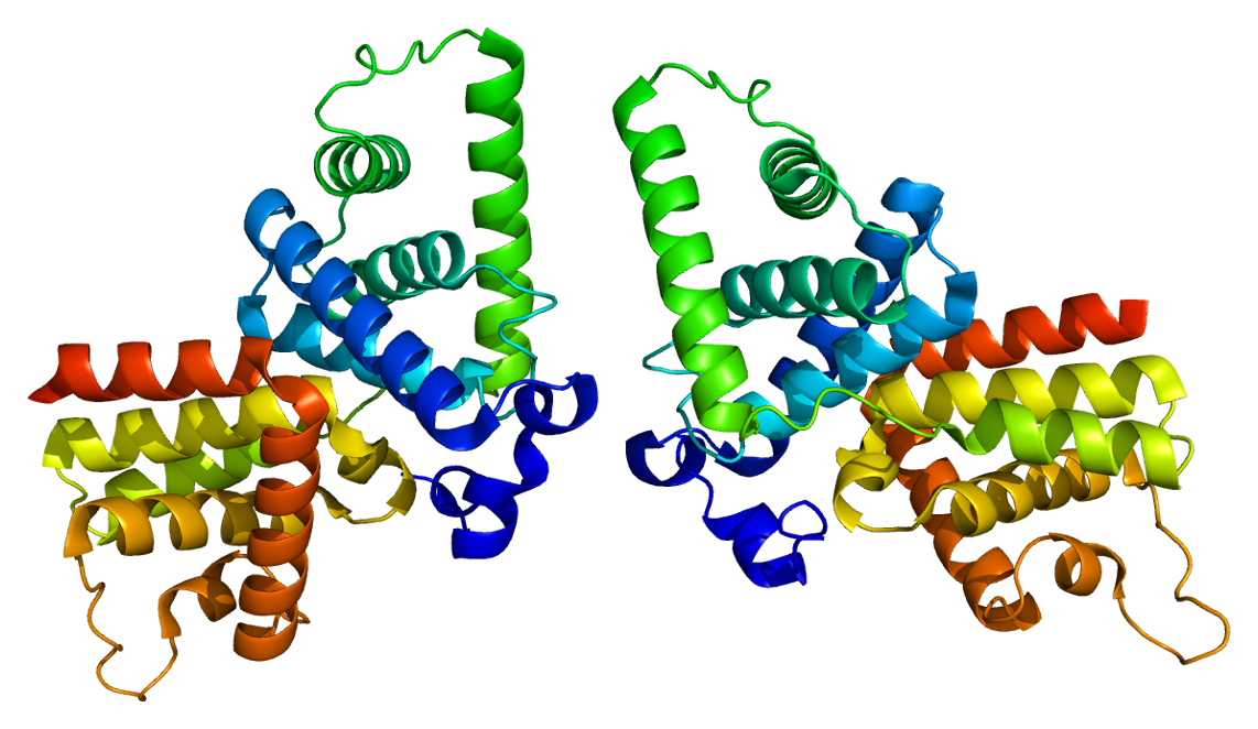 Structure of the CCNT2 protein. Based on PyMOL rendering of PDB 2ivx.